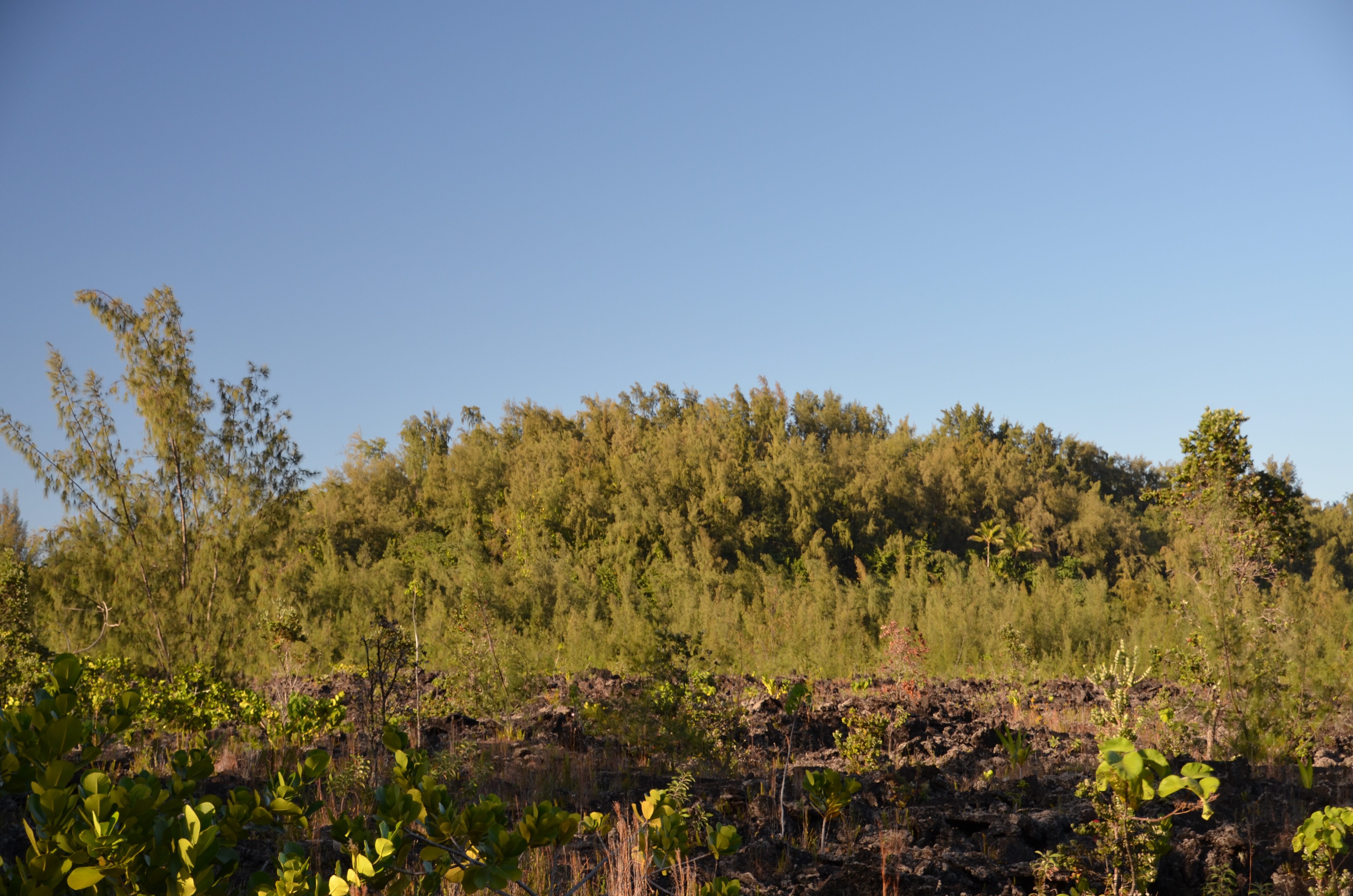 Ka wai o Pele (cf. Hawaii State Archives Digital Collections no 9900): crater with the Green Lake from outside